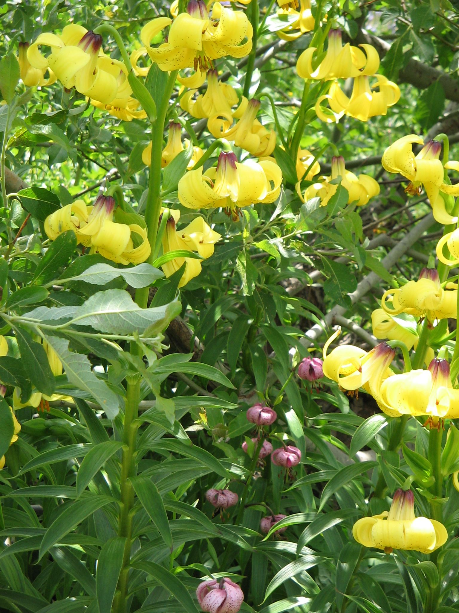 Lilium monadelphum & Lilium martagon